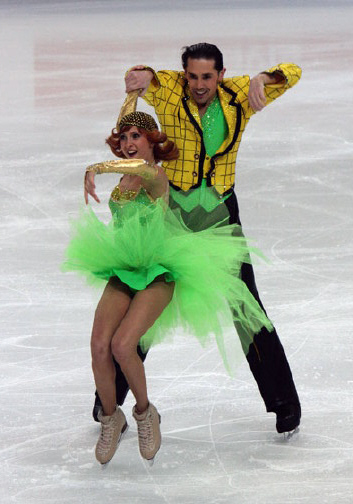 Jana KHOKHLOVA & Sergei NOVITSKI (RUS) at the 2009 European Figure Skating Championships OD - Rhythms of the 1920s, 1930s, and 1940s